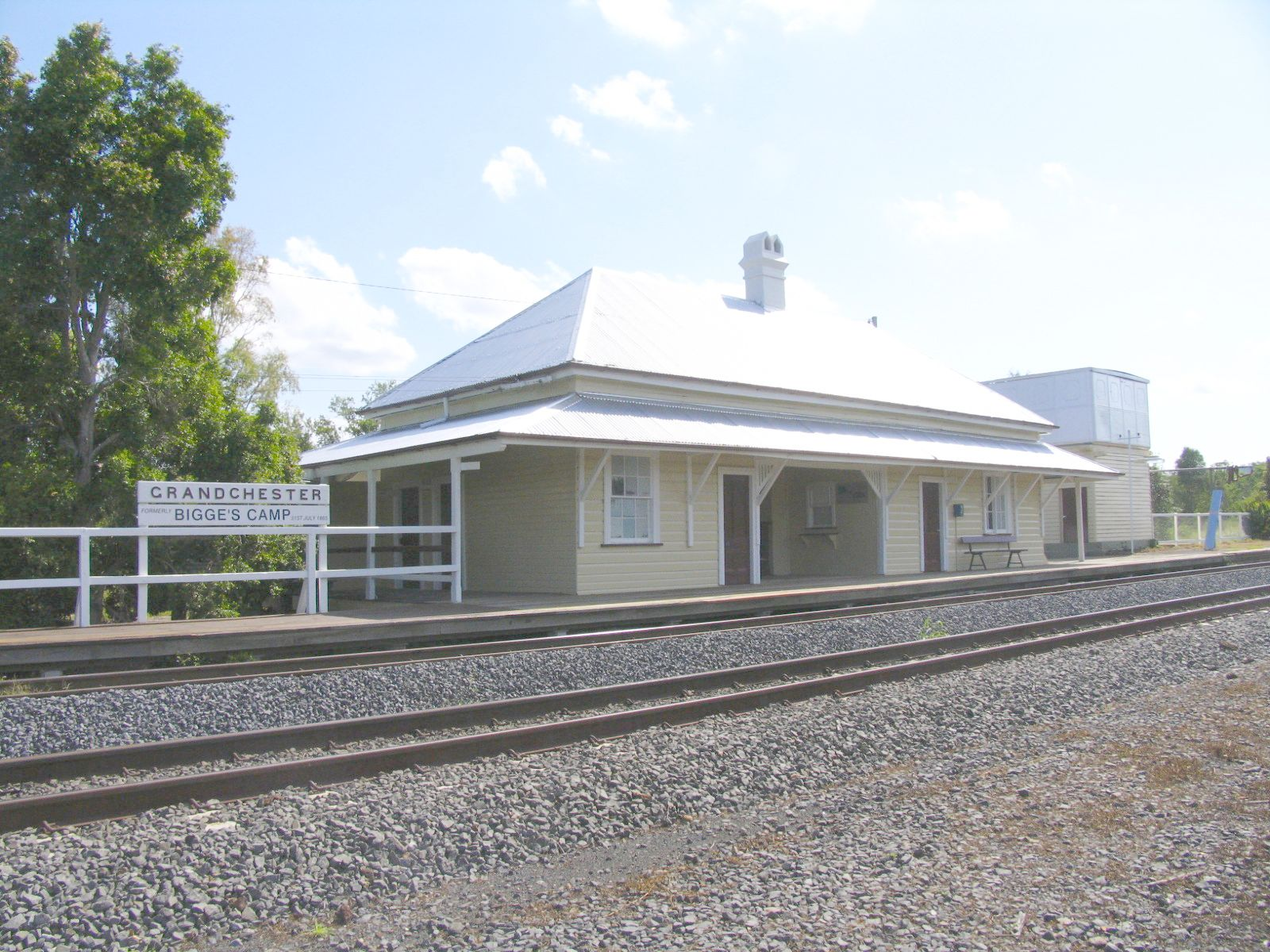 Grandchester railway station in Queensland, Australia, home of the first narrow gauge mainline railway in the world.